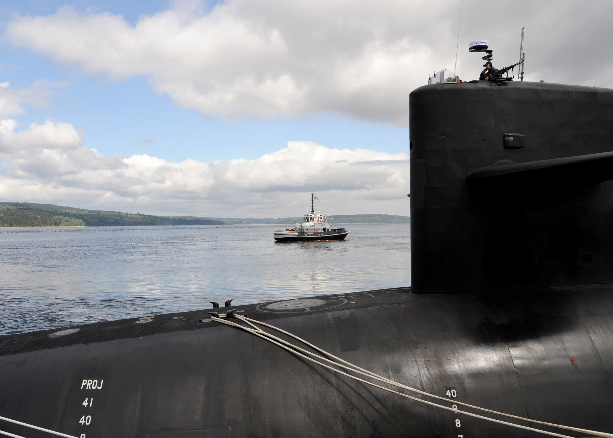 BANGOR, Wash. (May 6, 2010) A tugboat cruises by the ballistic-missile submarine USS Nevada (SSBN 733) as a member of the crew stands watch in the submarine's sail at Naval Base Kitsap. Nevada is returning after a two-year refit and refueling at Puget Sound Naval Shipyard in Bremerton, Wash. (U.S. Navy photo by Ray Narimatsu/Released)